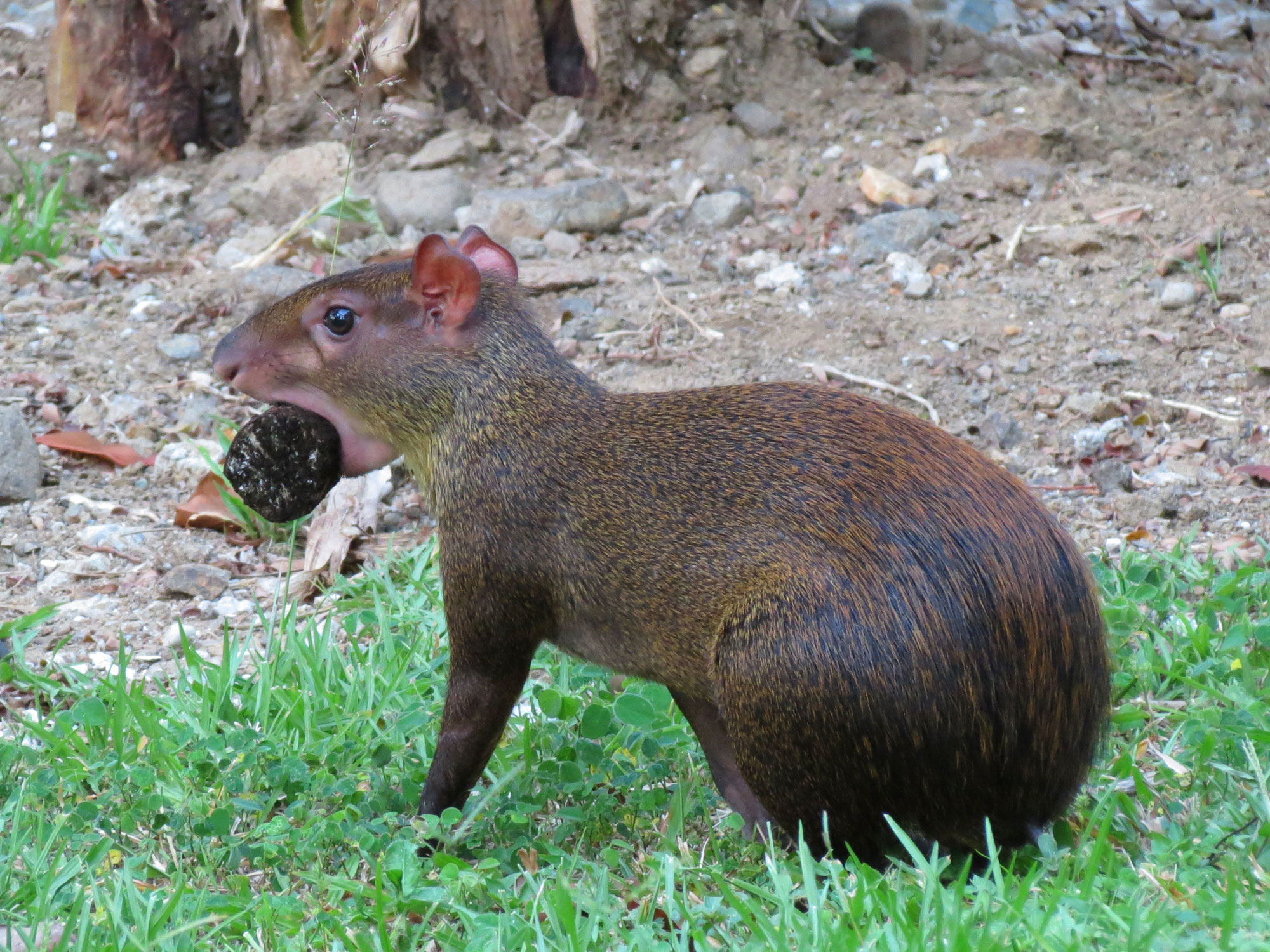 Dasyprocta punctata in the Canopy B&B garden, Gamboa Colón, Panamá